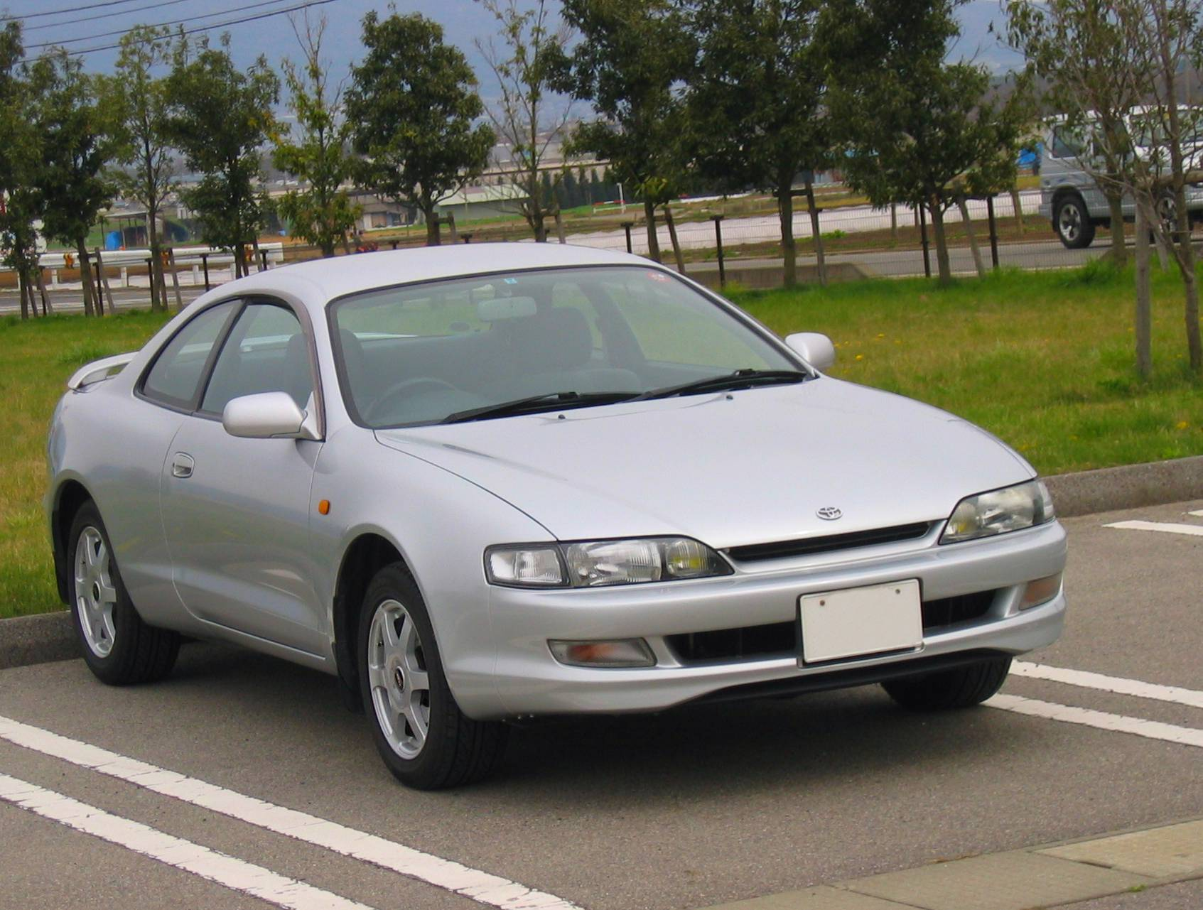 Curren (カレン) was an sporty and specialty car that was made by Toyota. It's a sister car to Toyota Celica.